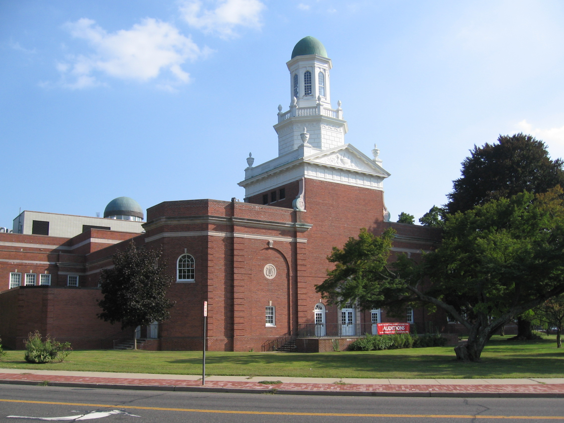 Front of Norwalk City Hall and Concert Hall, Norwalk, Connecticut. The building originally housed Norwalk High School.